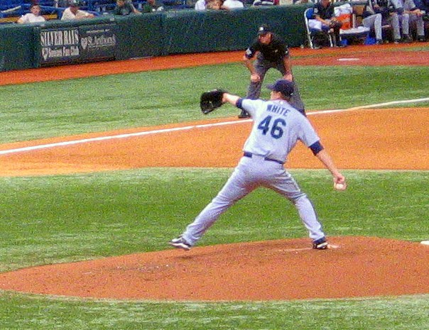 Sean White, professional baseball pitcher for the Seattle Mariners.